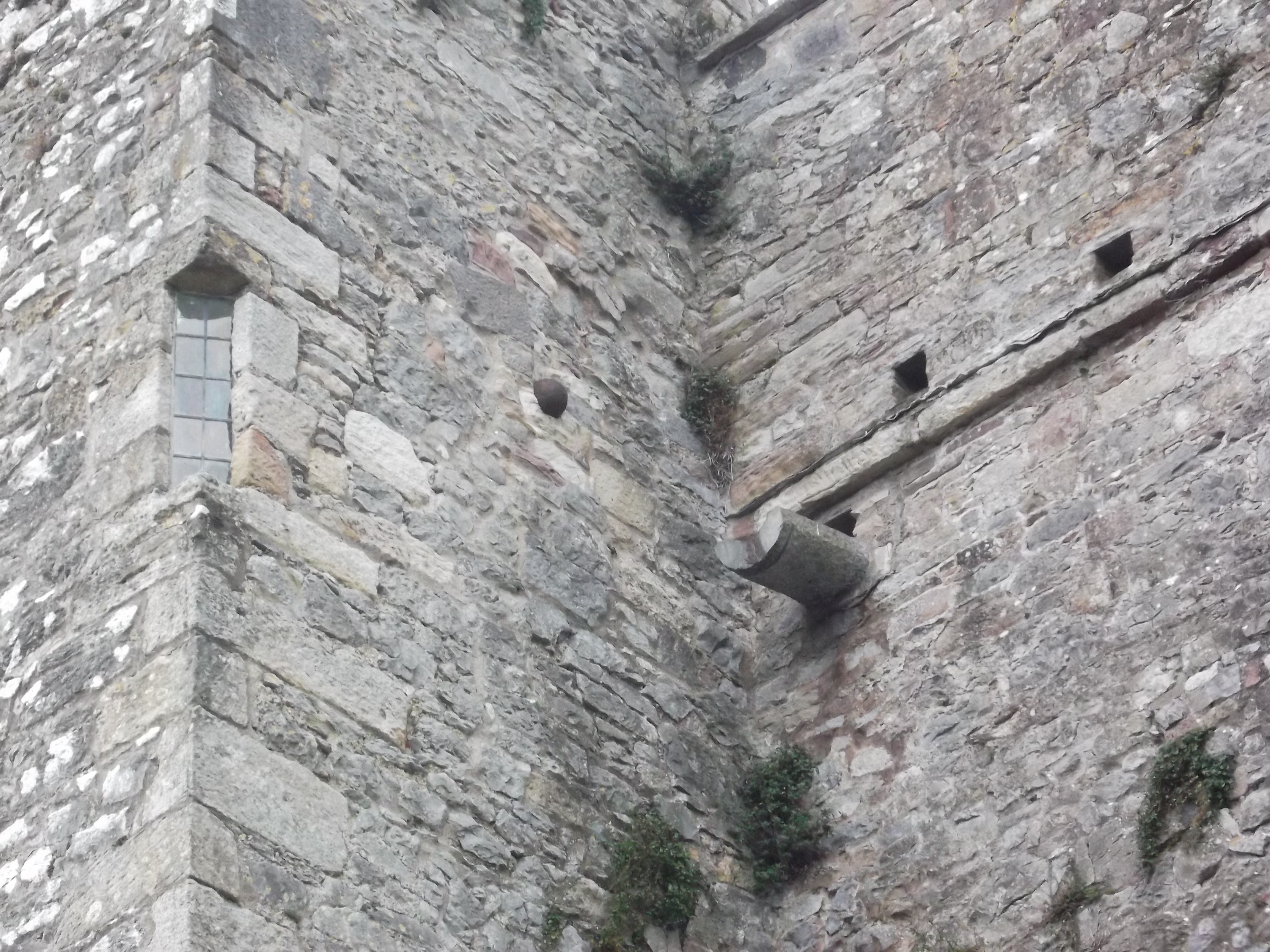 The earl of Essex bombarded the castle with heavy canon in in May 1599, this is one of those cannon balls still lodged in the castle wall.